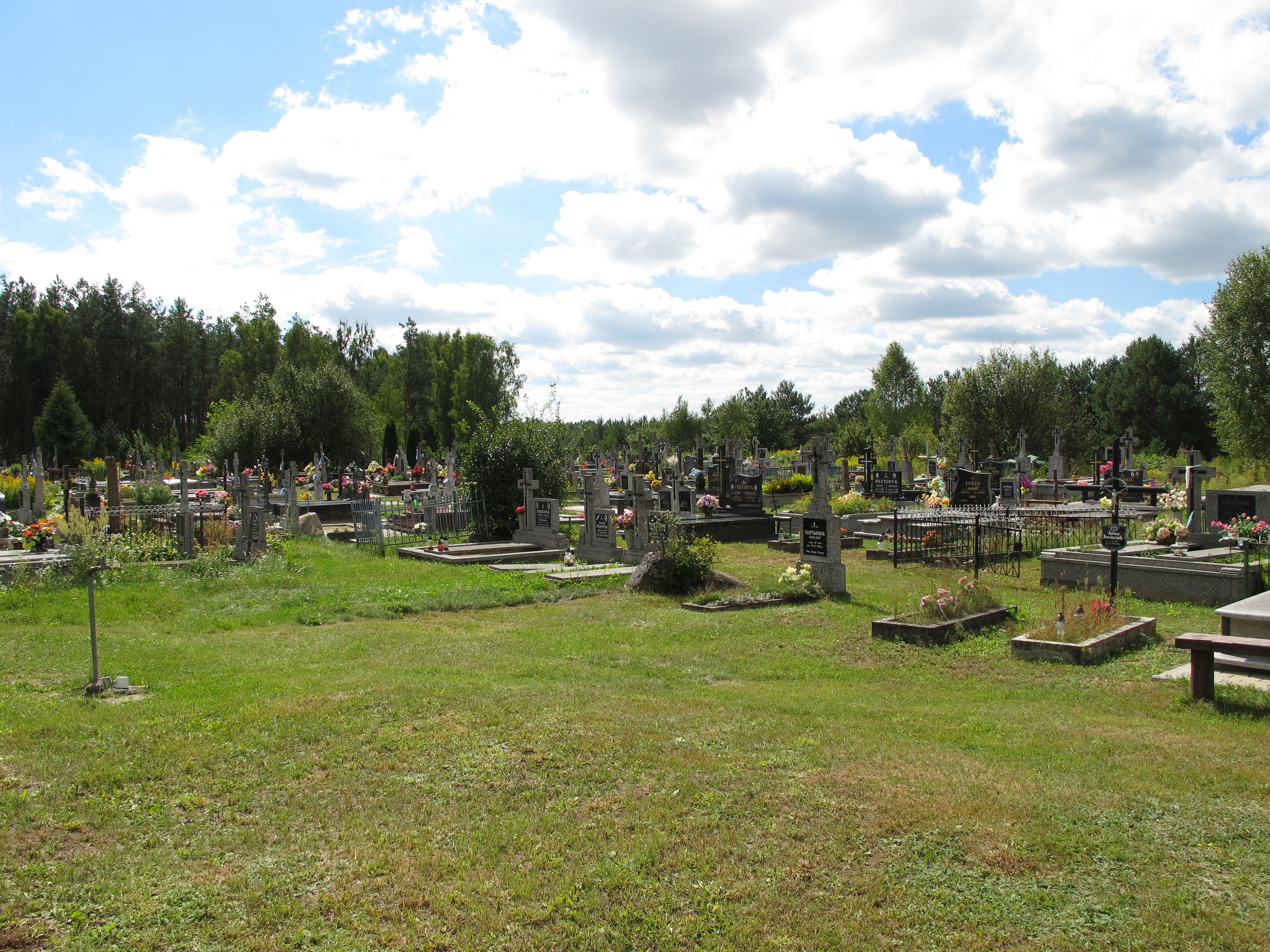 Cemetery near Plutycze village, gmina Bielsk Podlaski, podlaskie Poland